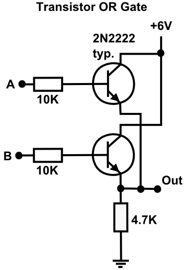 diagram of a transistor OR gate. Reference